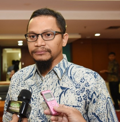 Ahmad Hanafi Rais, Deputy Chairman of 1st commission on People's Representative Council.